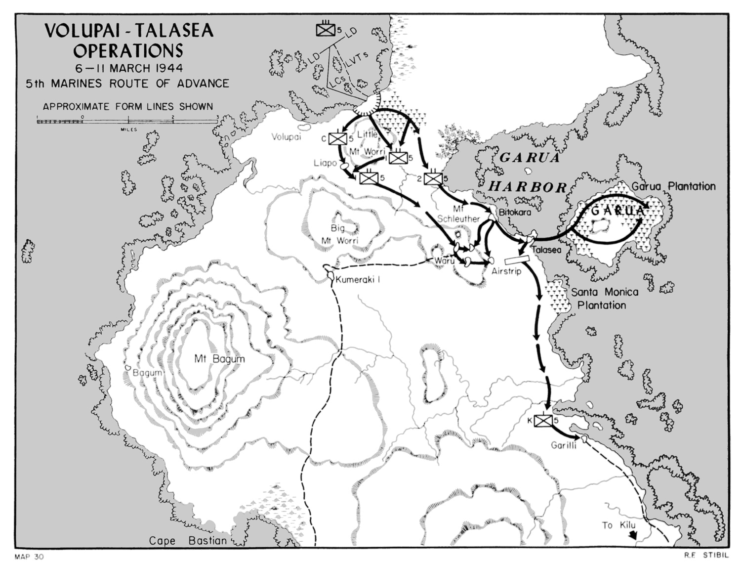 Map depicting US Marine operations around Volupai and Talasea, on the island of New Britain, March 1944